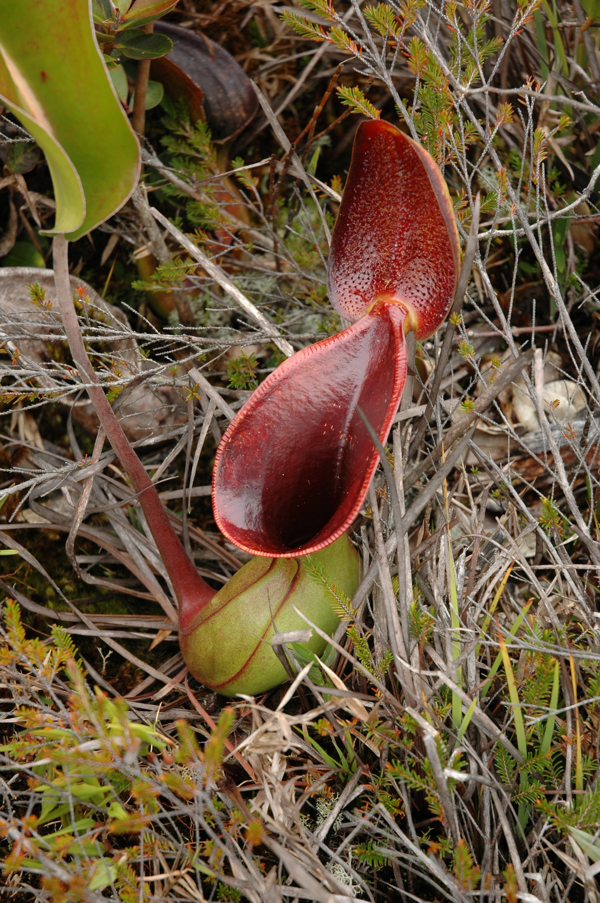 Nepenthes lowii Gunung Murud by Jeremiah Harris